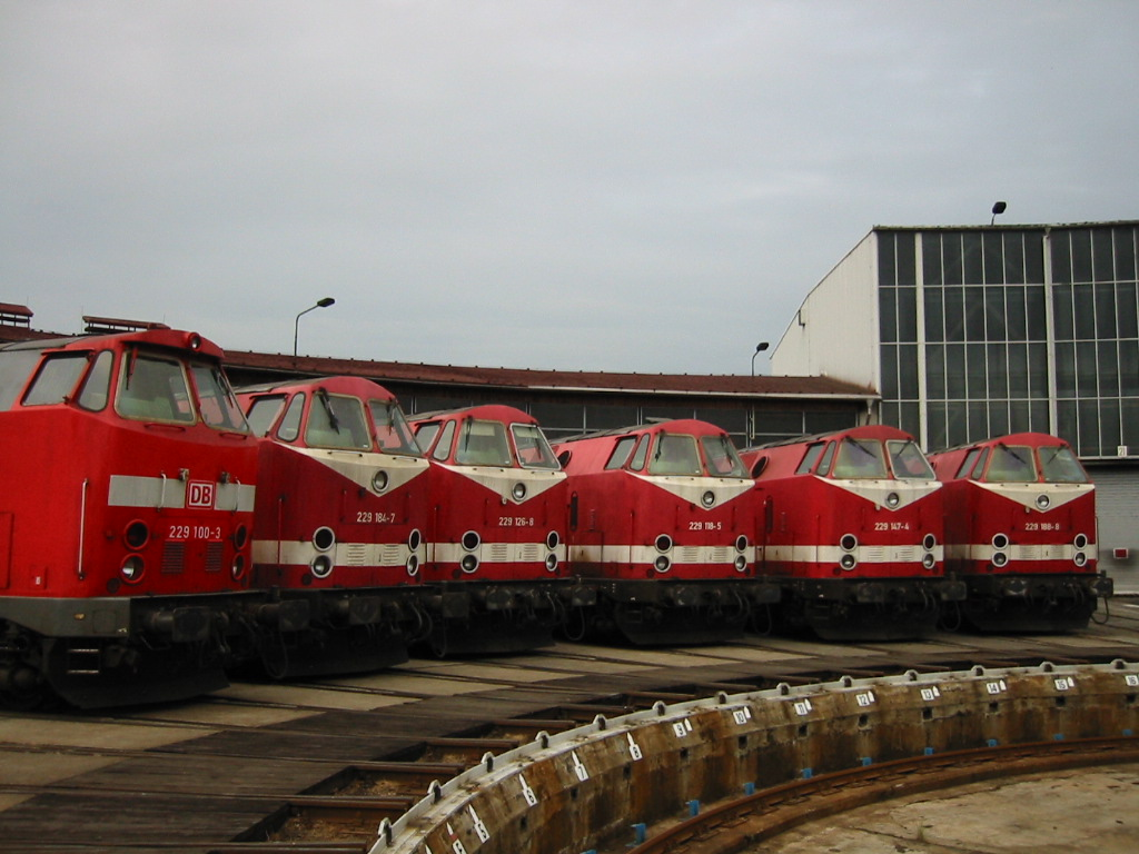 Class 229 Diesel locomotives in Gera, Germany, 2002 Original description: U-Boot-Parade im Bw Gera